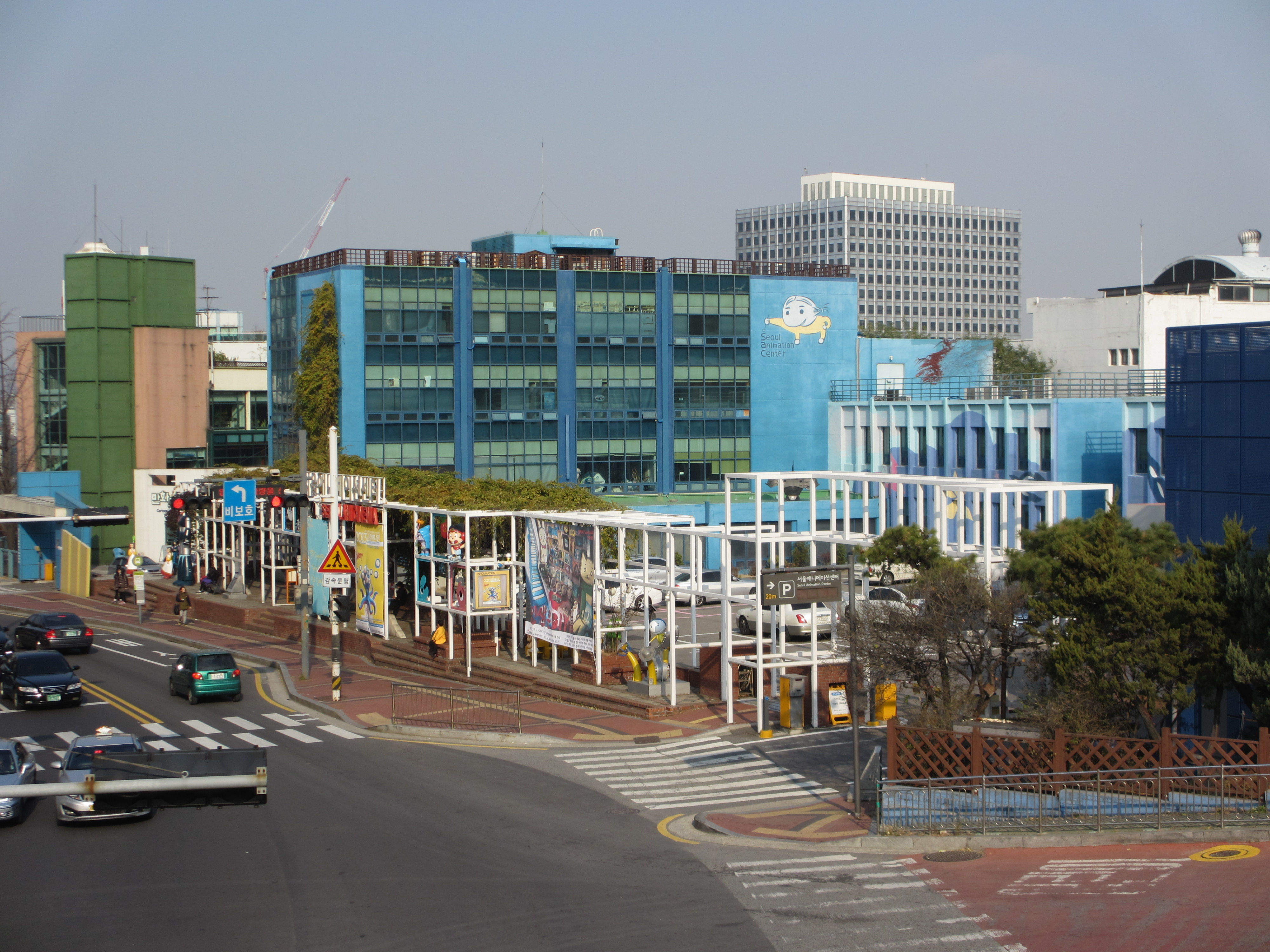 Seoul Animation Center, Yejang-dong, Jung-gu, Seoul, South Korea.